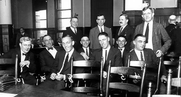 Seated starting second from left are: Joe Jackson, Buck Weaver, Eddie Cicotte, Swede Risberg, Lefty Williams, Chick Gandil (1921)